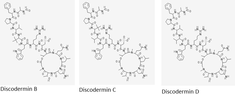 Discodermin B-D